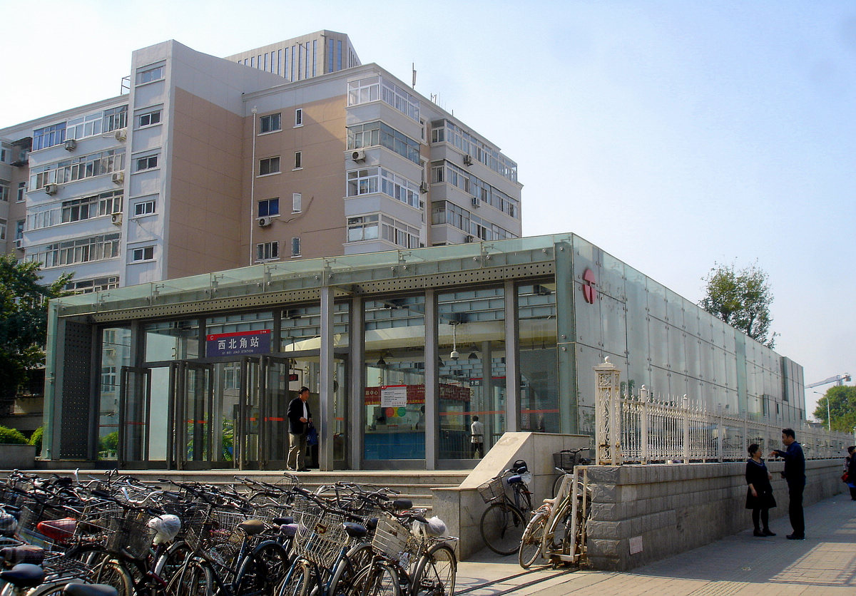 Xibeijiao St. (Line 1)